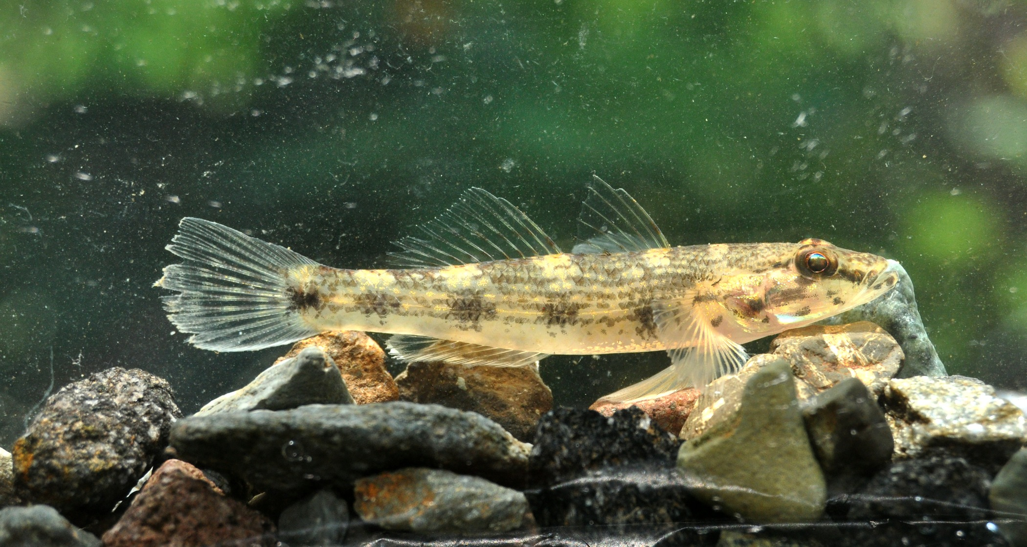 Tank goby, Glossogobius giuris, ca 52 mm SL. From Banyumas, Central Java, Indonesia.